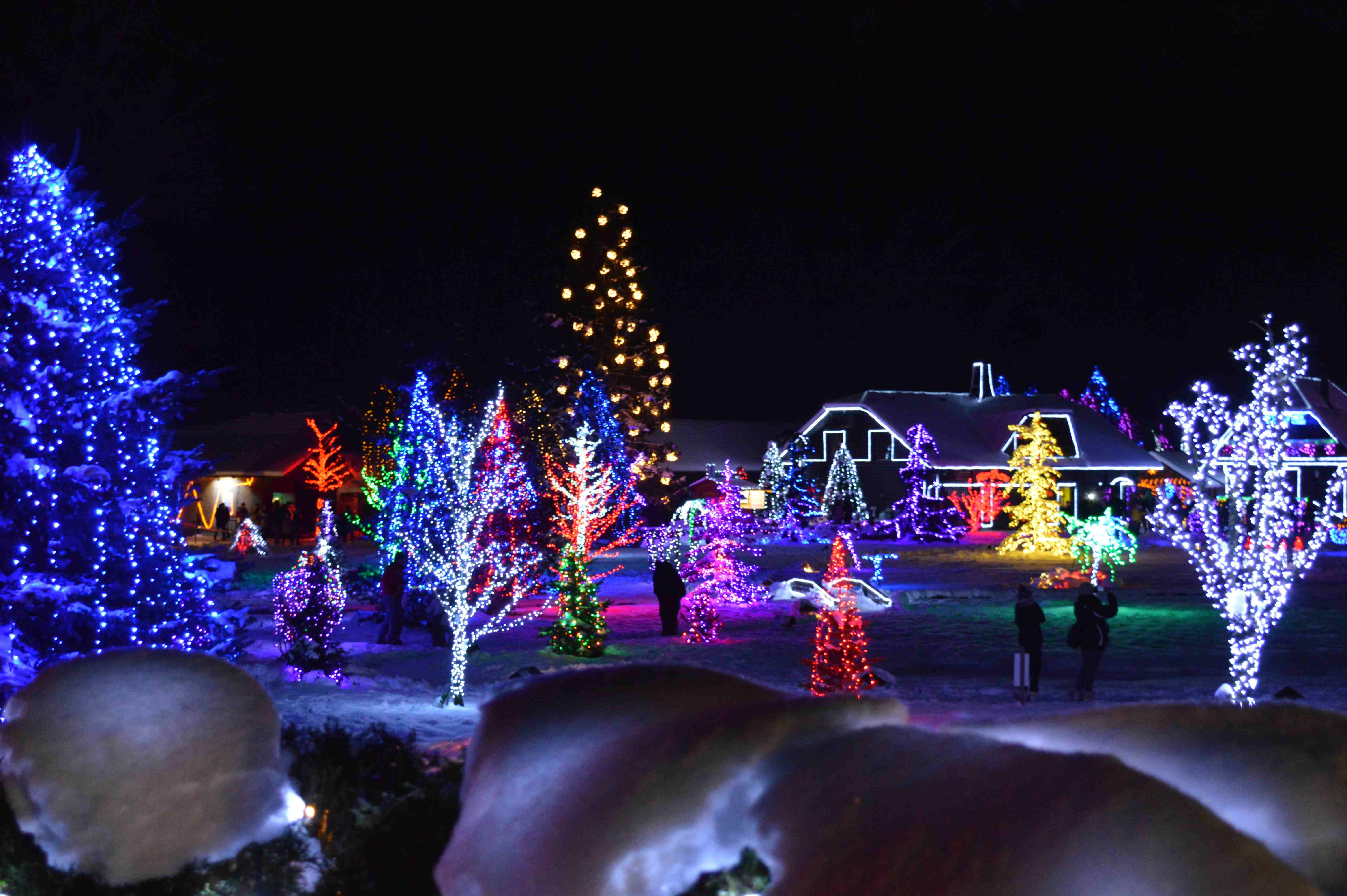 Christmas lights in Cazma